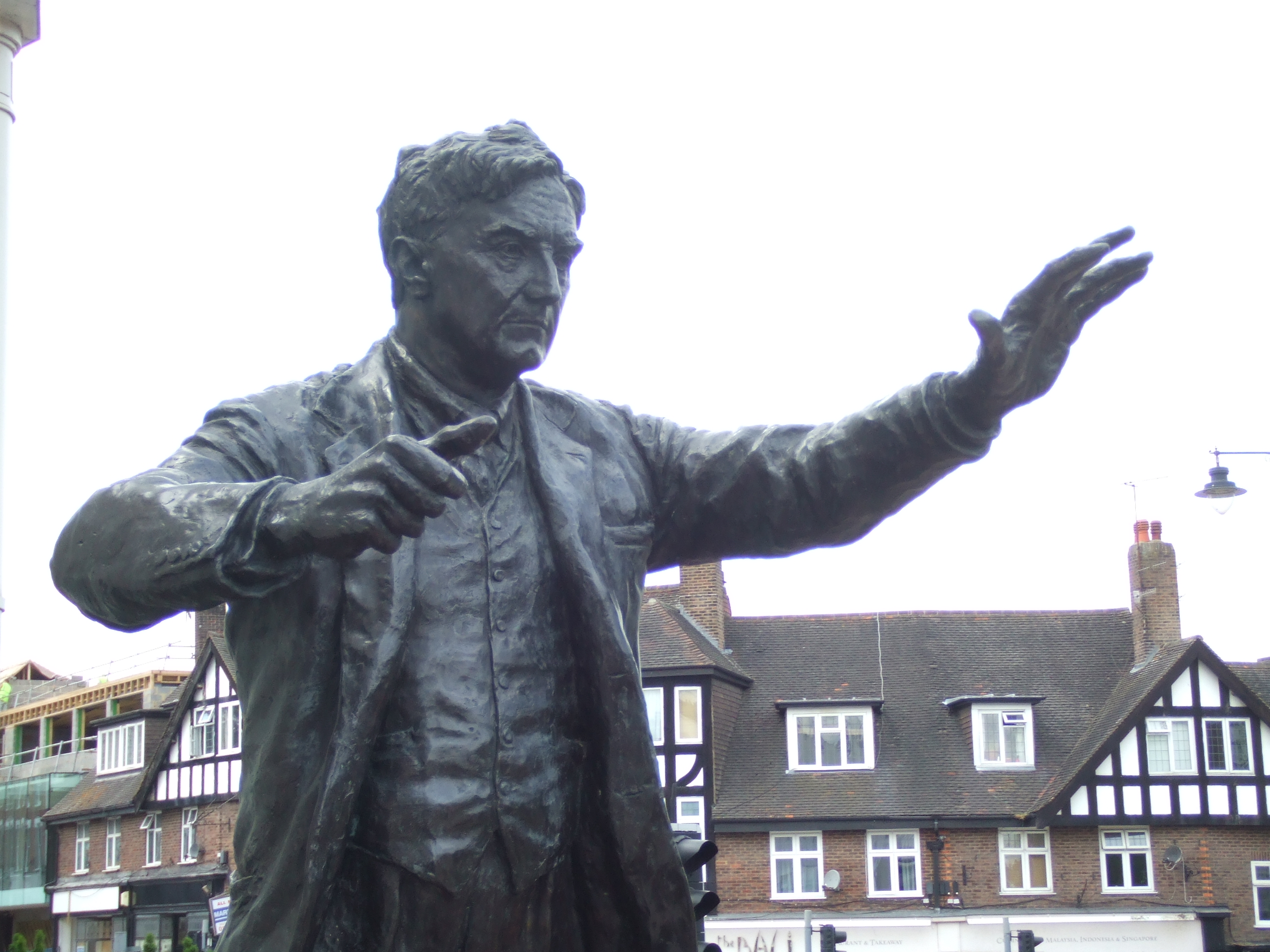 Ralph Vaughan Williams outside Dorking Halls